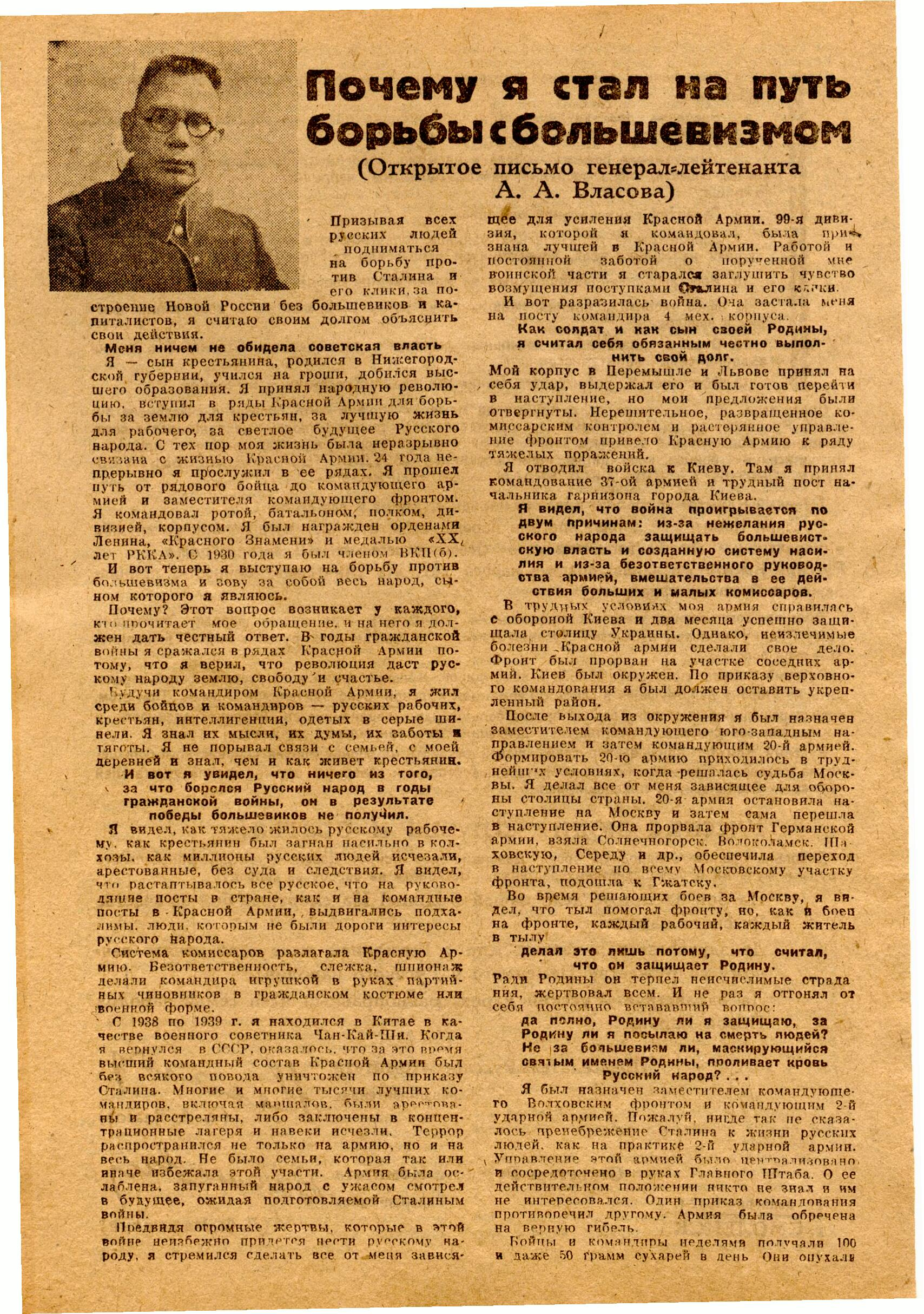 Andrey Vlasov, Listovka-1